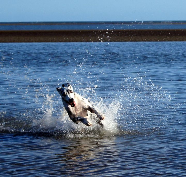 A Great Dane here shows its extreme athleticism.